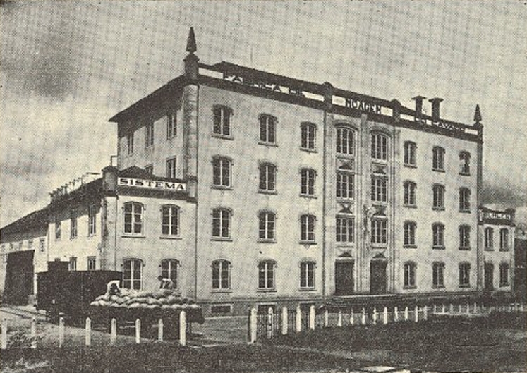 Fábrica de Moagem do Cávado (Cávado Flour Mill), that was connected through a spur line with the Barcelos train statiom, on the Minho Railway, in Portugal. The factory started working in 1920. This image was published on the Gazeta dos Caminhos de Ferro magazine no. 1363, of the 1st October 1944, and scanned by the Hemeroteca Municipal de Lisboa.